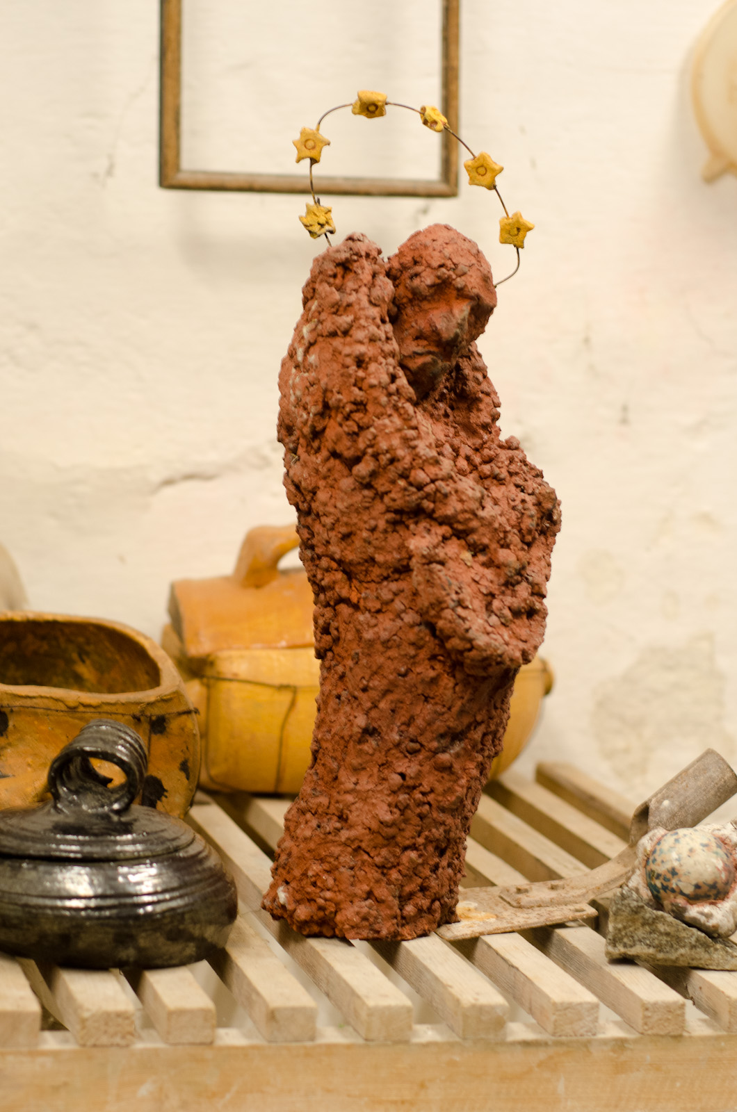 Sculpture of a British blues guitar player and singer Stan the Man (real name Stanislaw Wolarz) by the Czech ceramist Ivan Hostaša; photograph taken in late Ivan Hostaša's studio. The material used for the sculpture is a combination expanded clay granules (Liapor) and clay, typical for the late period of Hostaša's work.